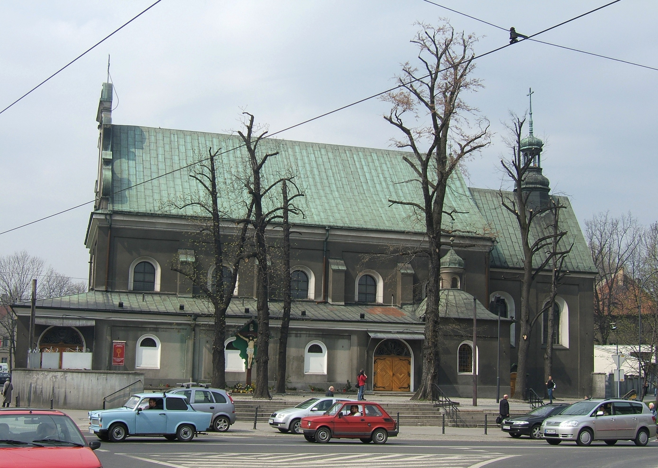 The Gliwice's Holy Cross church was erected in 1623, but the today's building is from 1921.